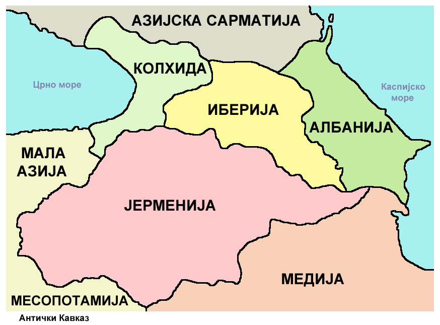 Map of ancient Caucasus - Armenia, Colchis, Iberia, Albania.